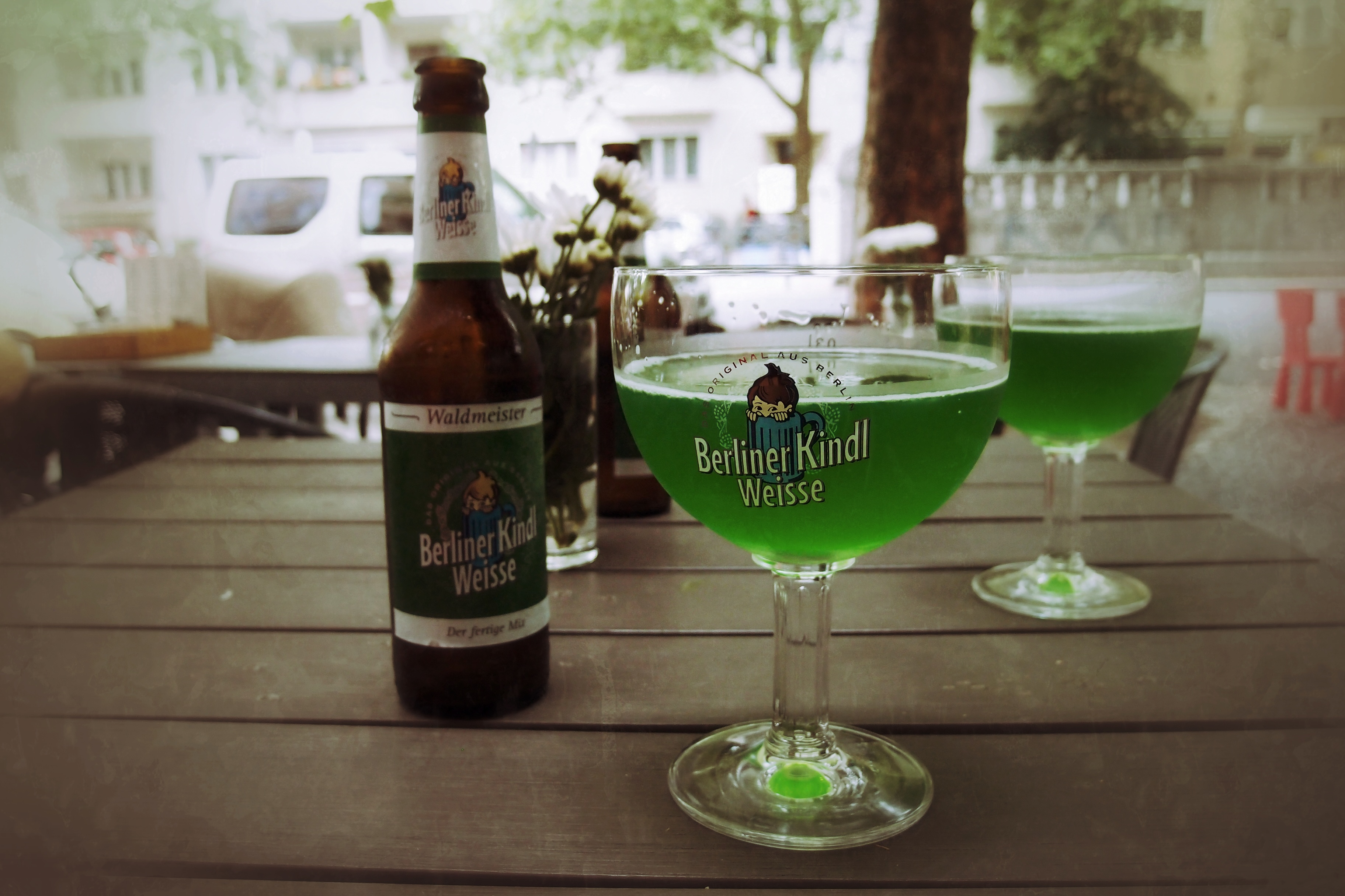 We are really in Berlin